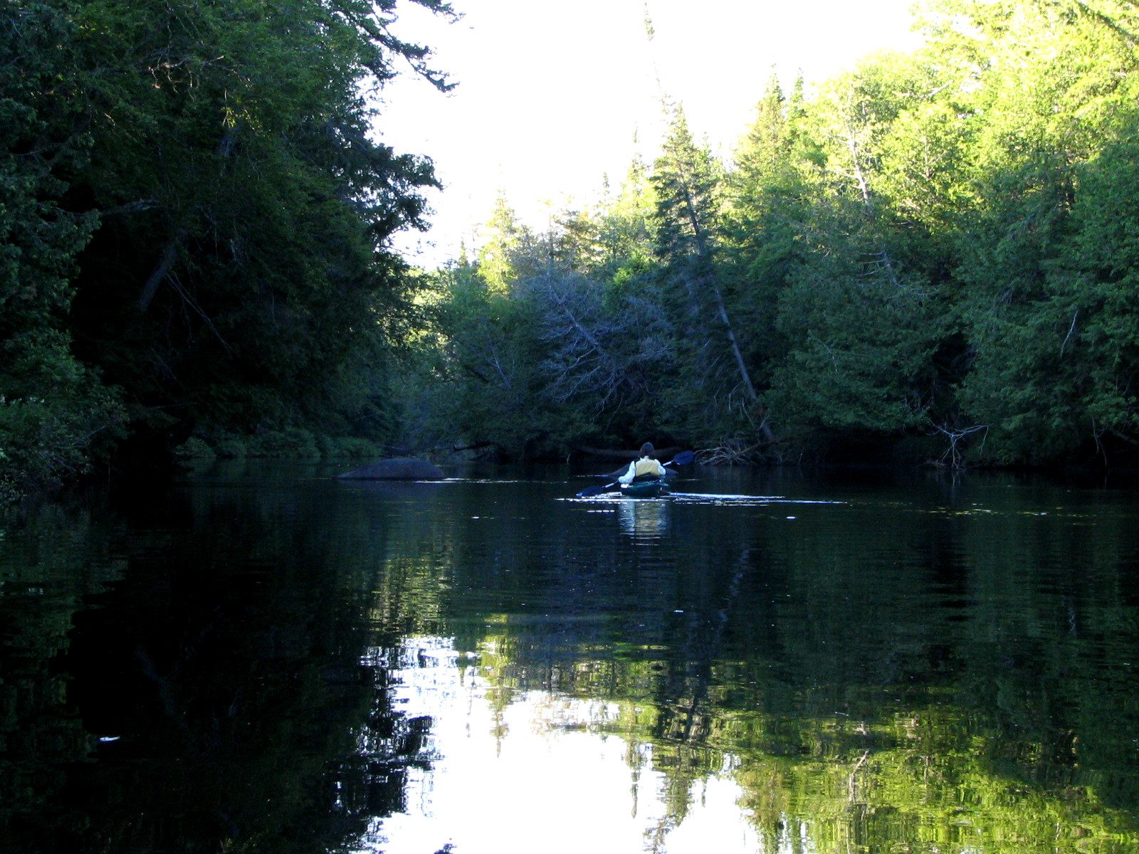 The Hudson River near Newcomb, New York, a dozen miles downstream from its source. Taken by User:Mwanner, 24 July, 2006.